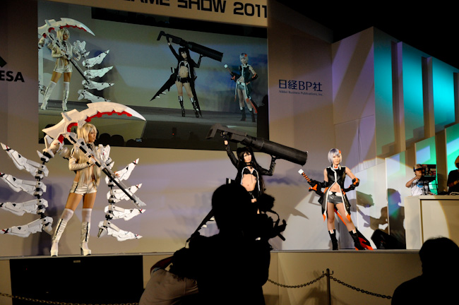 Taken on September 17, 2011 Nikon D90